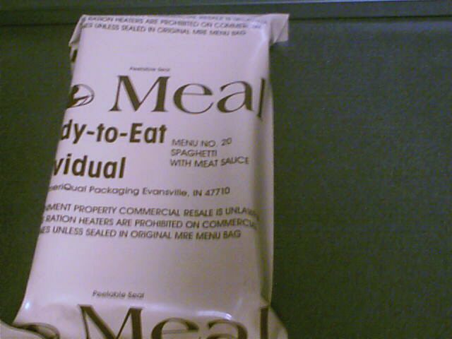 A "Meal Ready to Eat" packet. Picture taken by me. 画像:Mre-packet.jpg